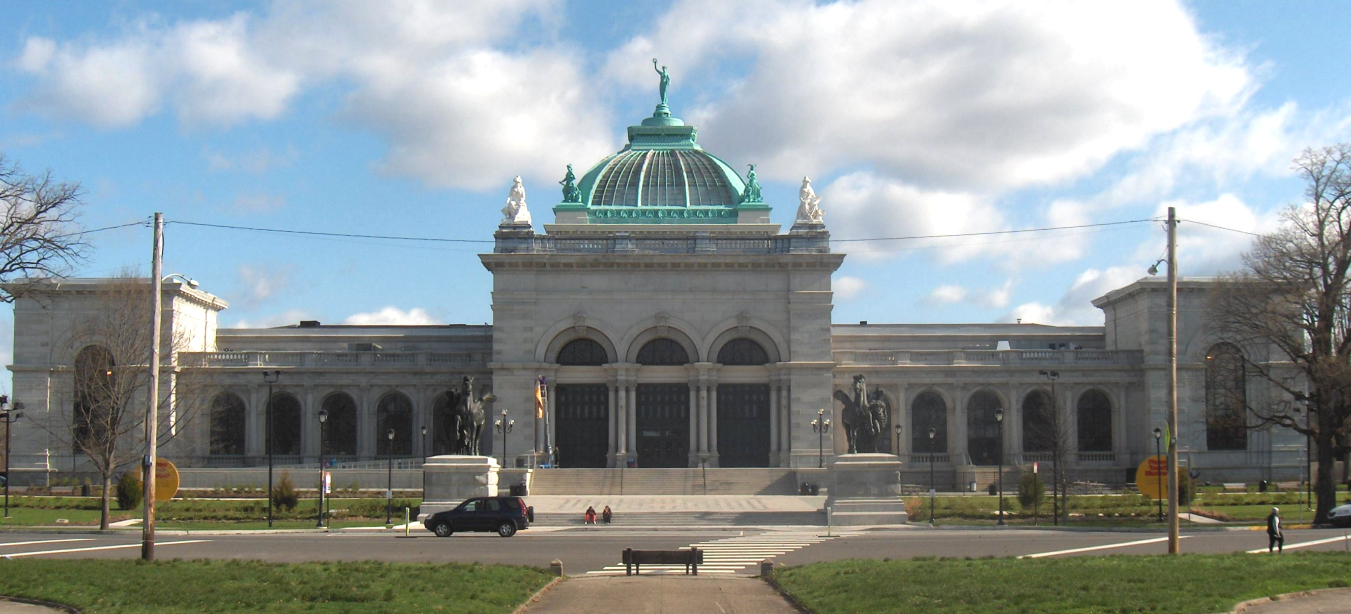 Memorial Hall, 4231 Avenue of the Republic, Philadelphia, PA 19131, Centennial Exposition, 1876, now home to the Please Touch Museum. View from south of the Avenue of the Republic, looking north